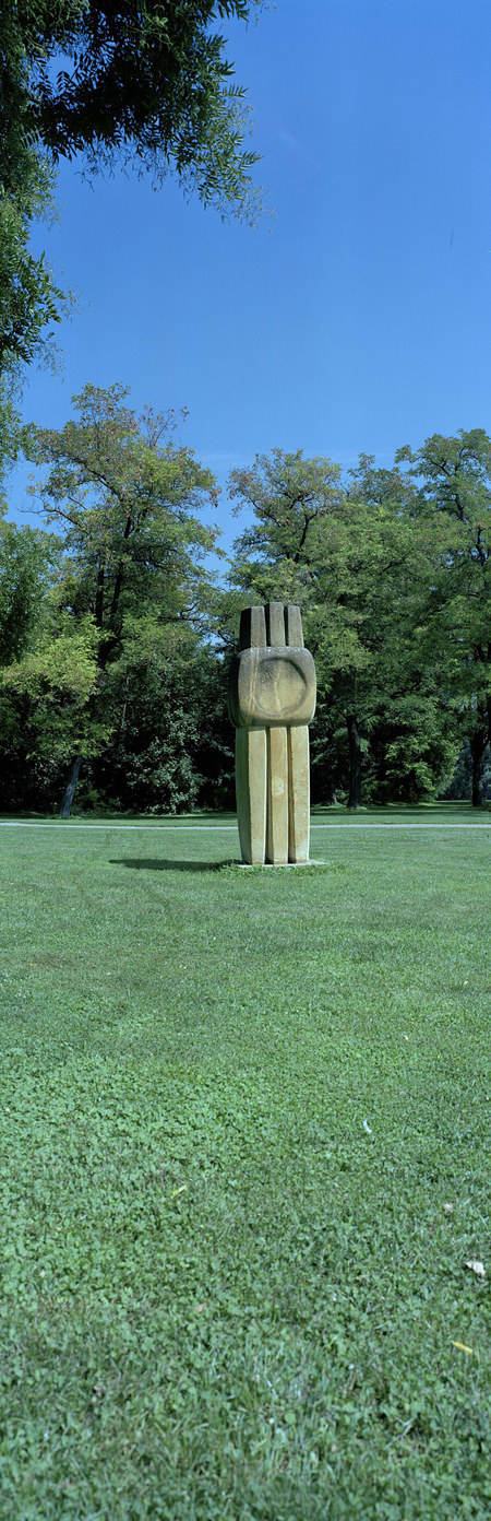 Jakob Savinsek: Sign of the 20th century, 1960